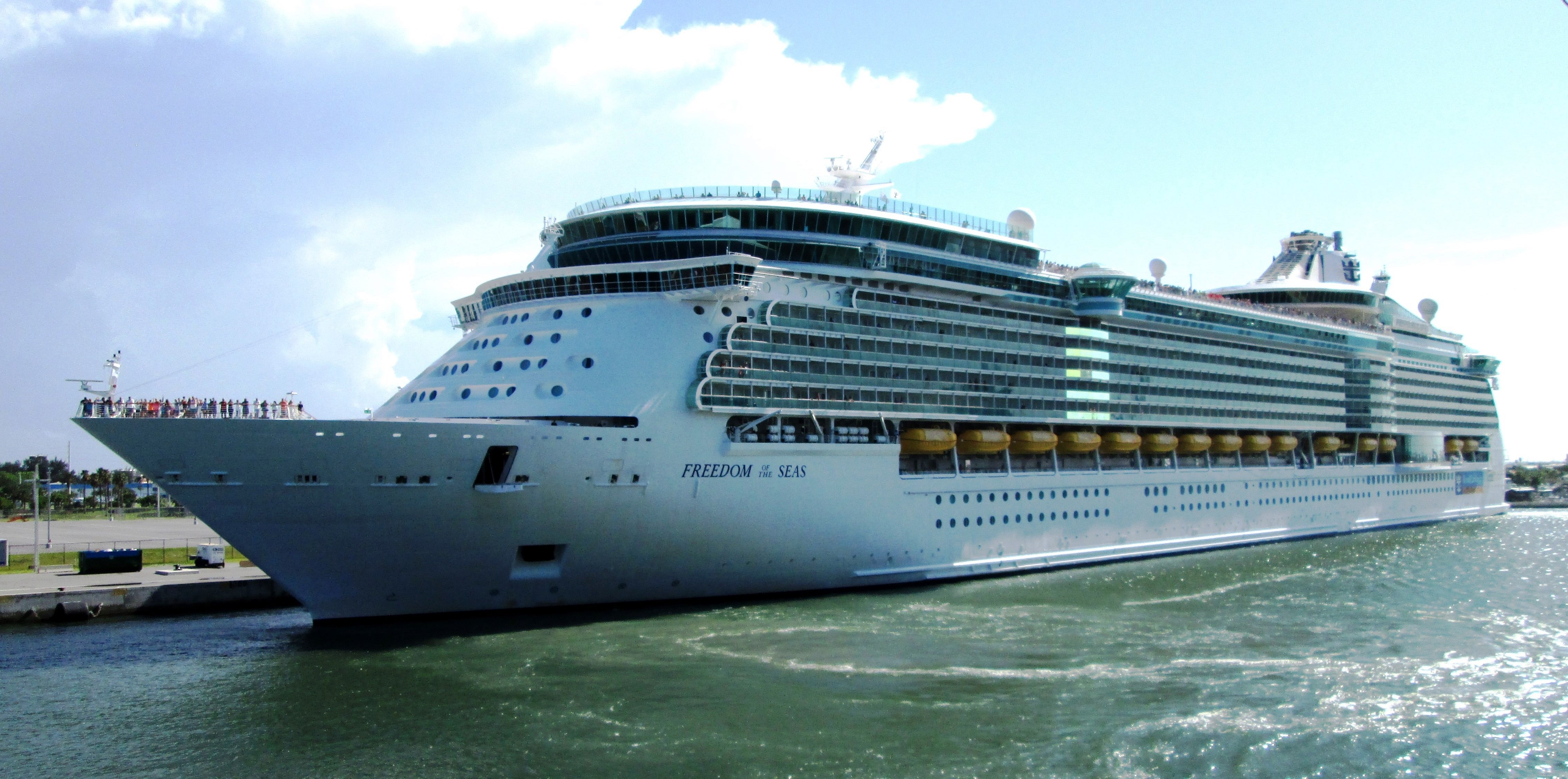 The MS Freedom of the Seas at dock in Port Canaveral, Florida, is owned by Royal Caribbean Cruises. It was christened in 2006/